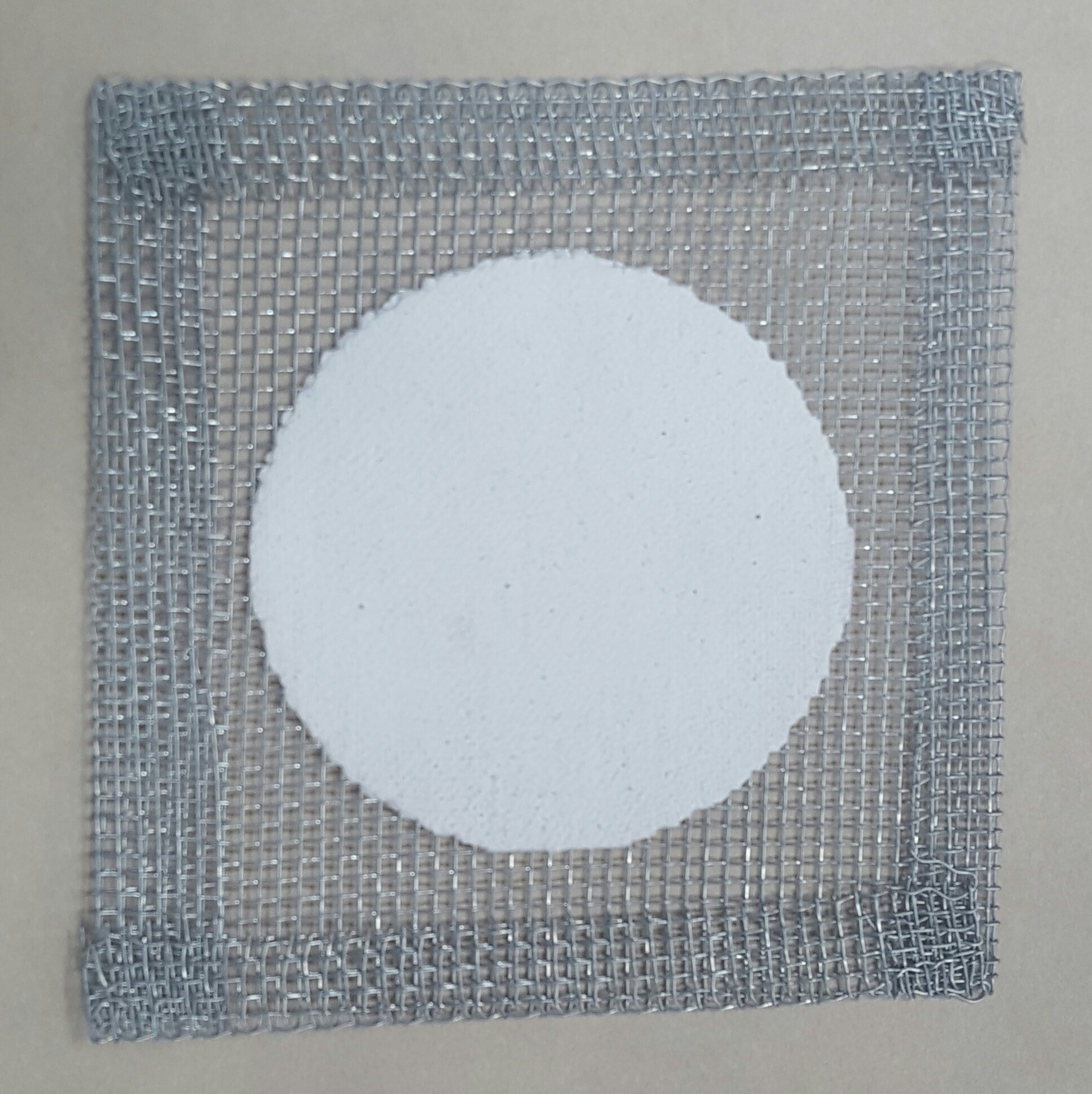 15cm by 15cm wire gauze